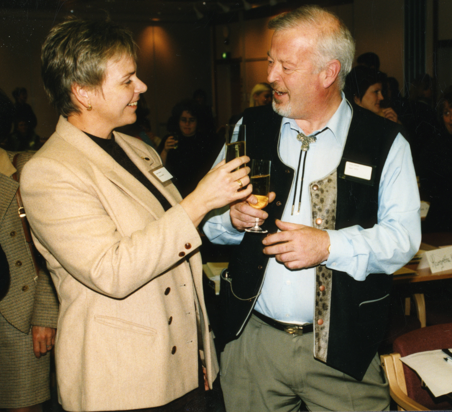 Marit Stykket 1996